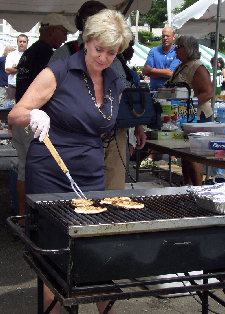 Linda McMahon, Republican candidate for U.S. Senate in Connecticut, stopping on the campaign trail to tend to some grilled chicken being prepared by the local Republican Town Committee in Milford, Connecticut at the city's annual Oyster Festival.